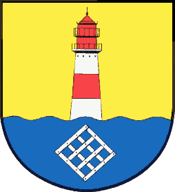 Coat of arms of the municipality Pommerby in Schleswig-Holstein, Germany.